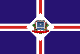 Flag of Jaciara (Mato Grosso) - Copyrited by the brazilian law of Industrial Preperty (Law 9.279/ 14/05/1996)